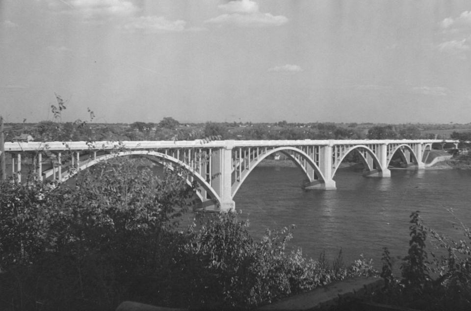 We see the Pie-IX bridge linking Montreal and Laval.